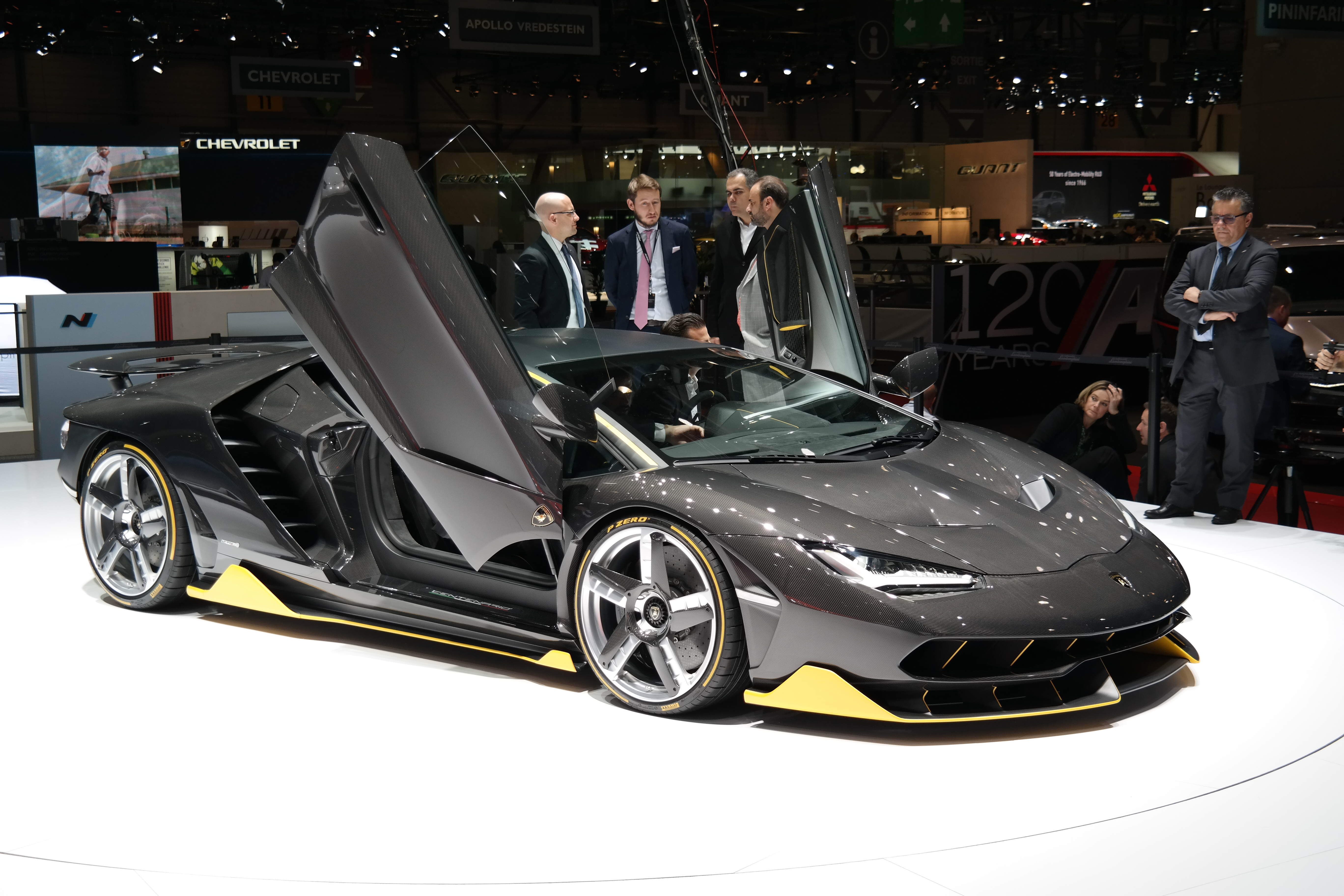 Geneva Motor Show 2016 (photo taken on the first press day)